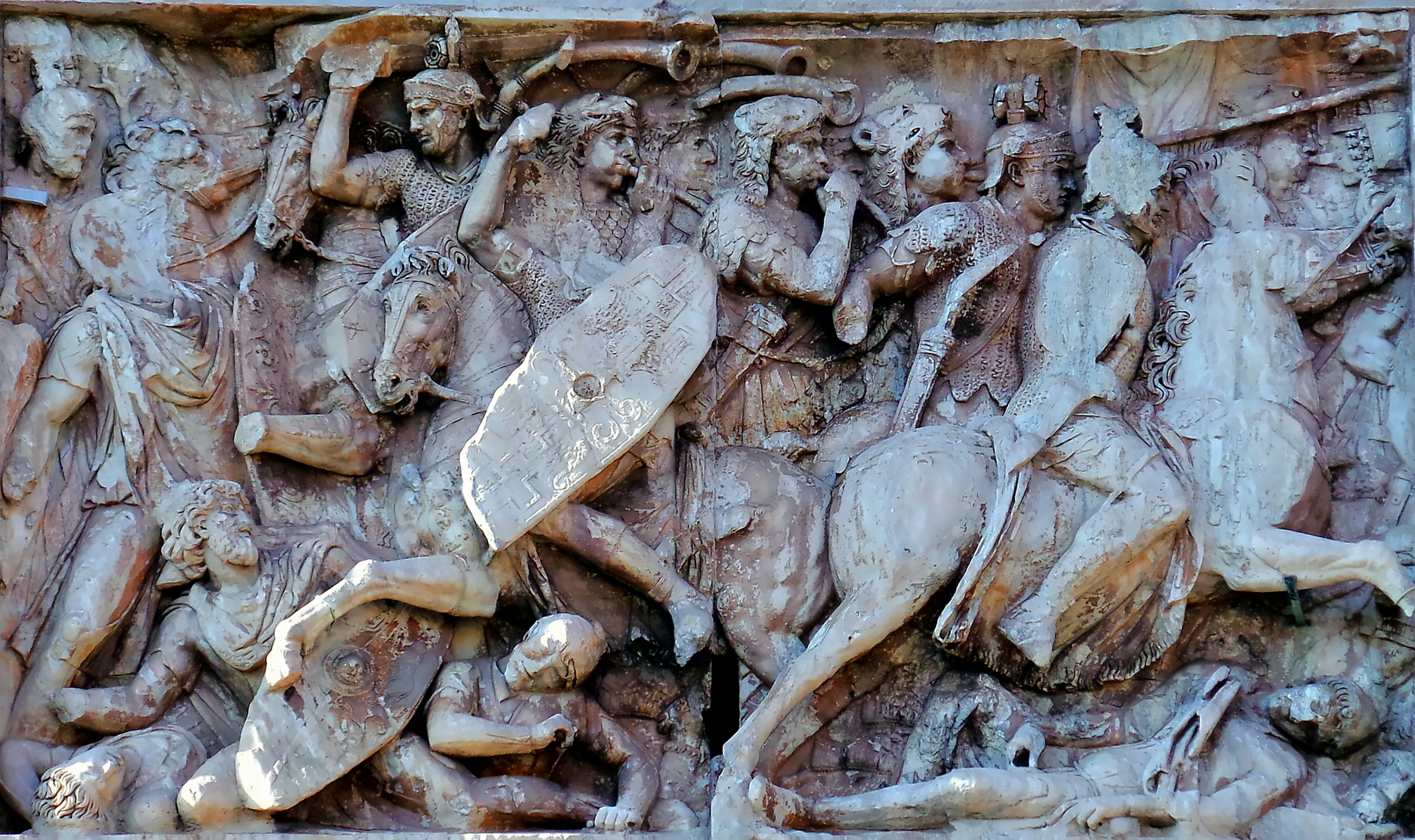 Cornicines (hornblowers) in the Dacian Wars, from the uppermost relief on the east end of the Arch of Constantine in Rome. This relief originally came from a frieze celebrating the emperor Trajan's victory over Dacia, and so must date from AD 106 or just after; it was reused for Constantine's arch, which was completed in AD 315.